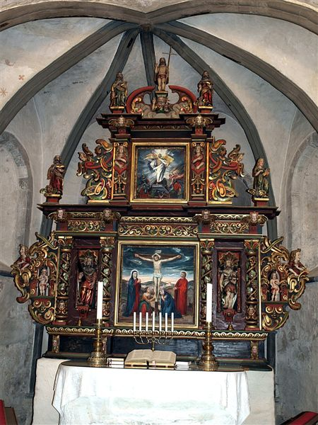 Altar from 1649 made by Johan Bildtsnider.